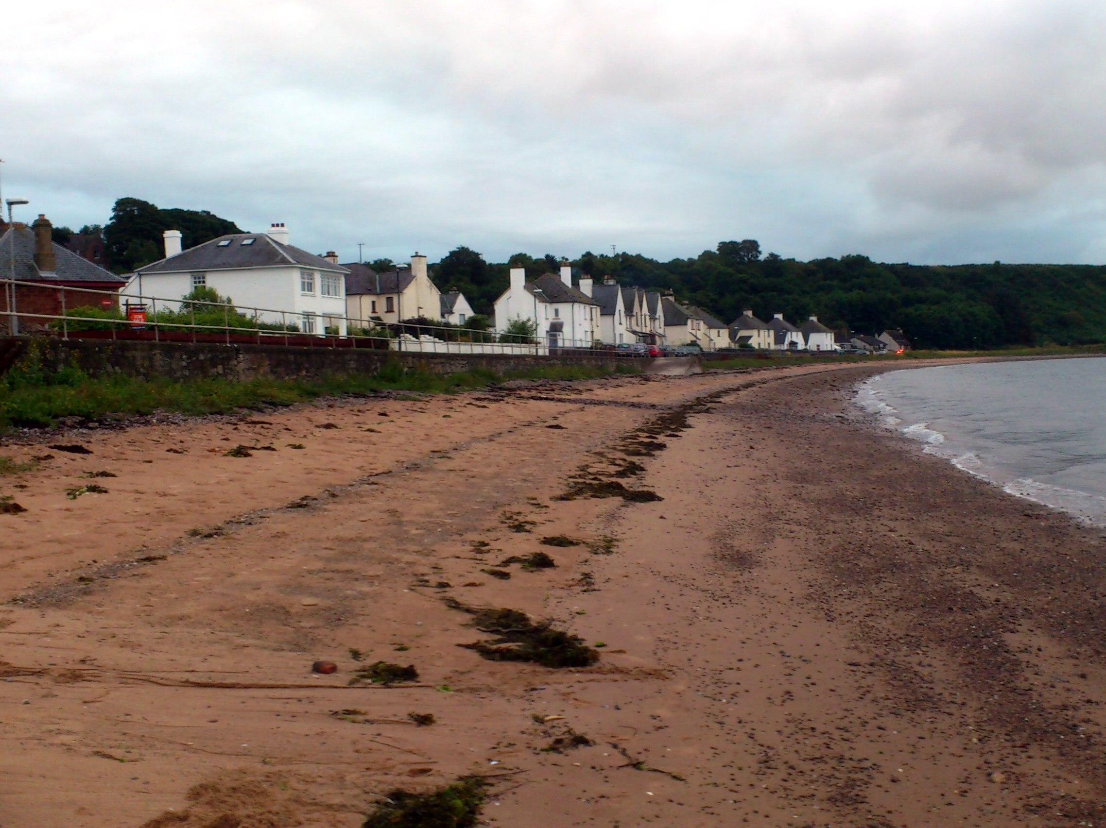 Cromarty waterfront houses